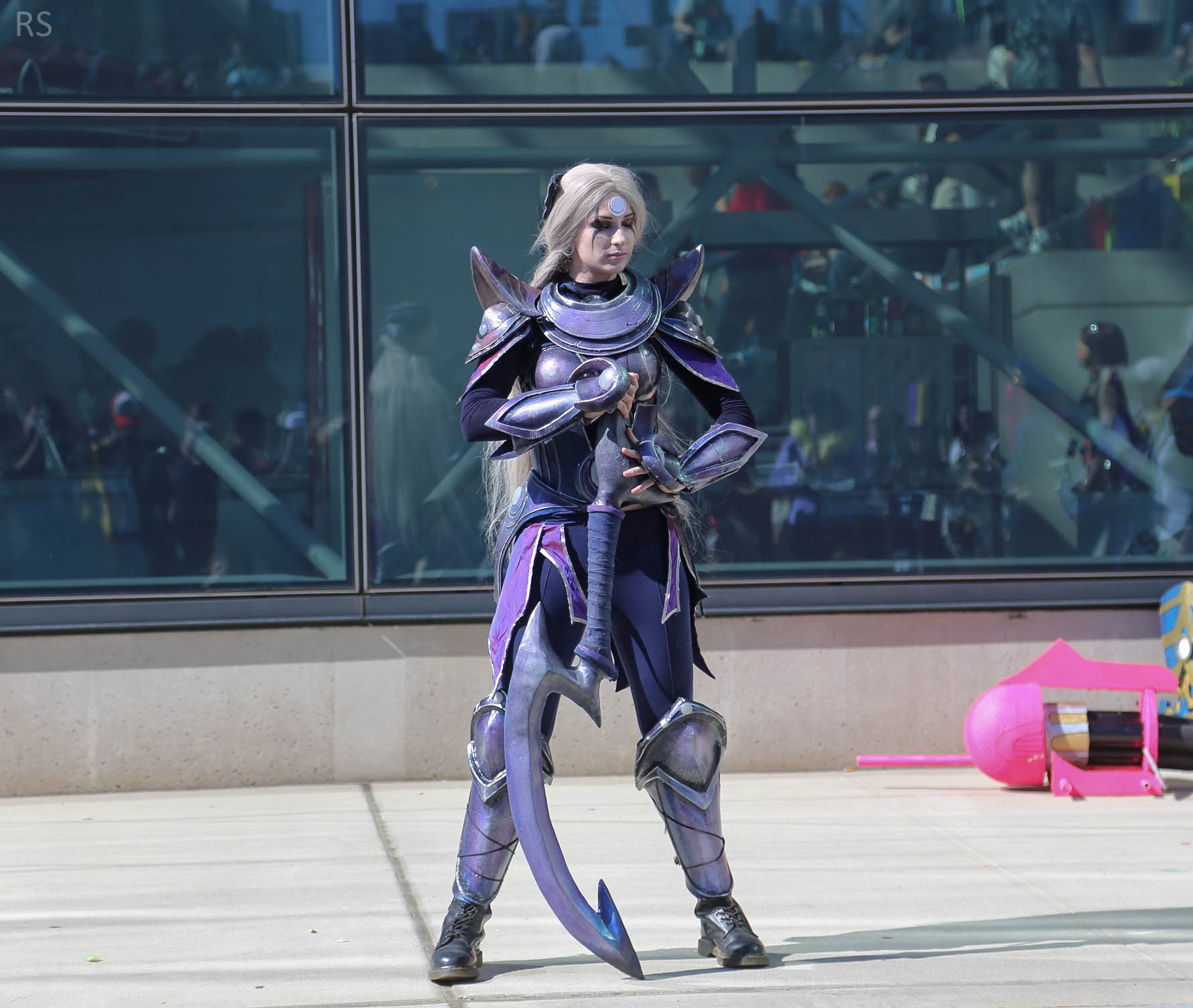 New York Comic Con 2015 - Diana Cosplay at the 2015 New York Comic Con (NYCC 2015).